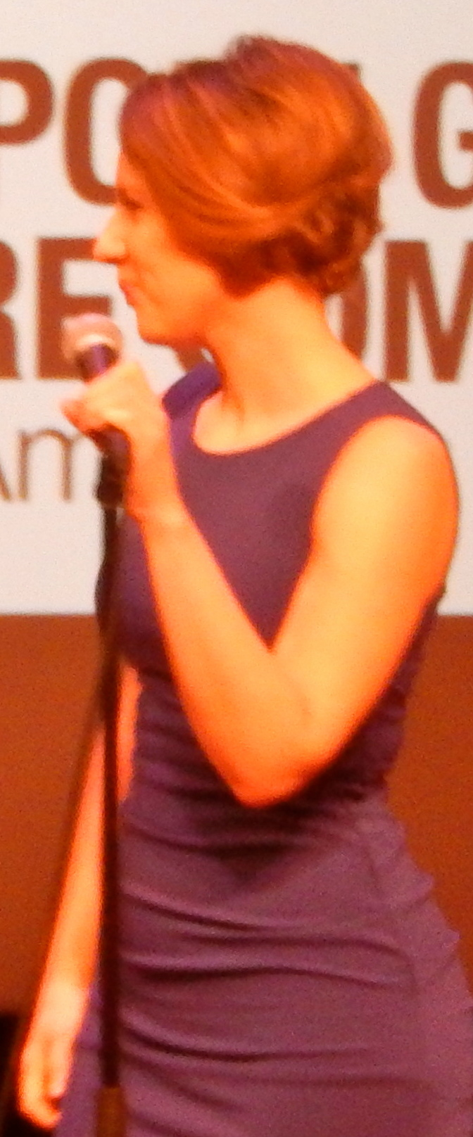 'Gimme A Break!' Transport Group Gala 2013. The Asia Society. NYC. 12.9.13.